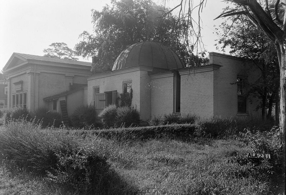 University of Alabama, Observatory, Stadium Drive & Fifth Street, Tuscaloosa, Tuscaloosa County, AL. WEST ELEVATION (REAR). Now commonly known as the Old Observatory.